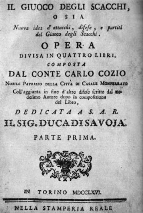 Front cover of chess book "Il giuoco degli scacchi o sia Nuova idea di attacchi, difese e partiti del Giuoco degli Scacchi", Carlo Cozio 1766